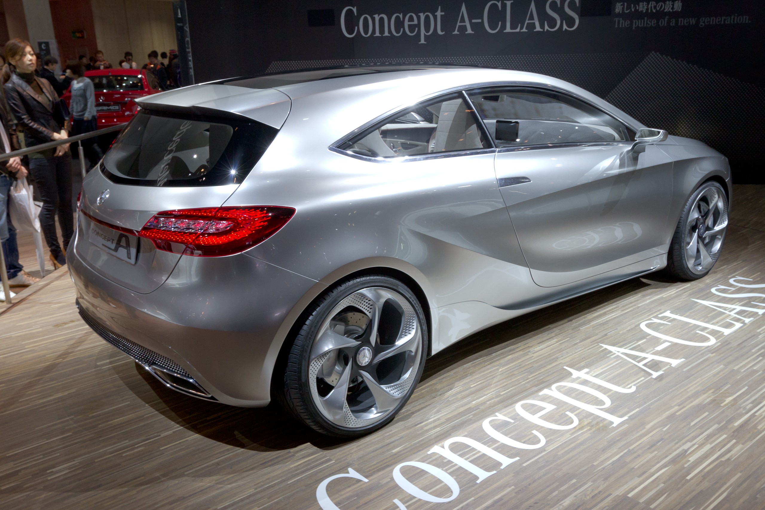 Tokyo Motor Show 2011: Mercedes-Benz Concept A-Class